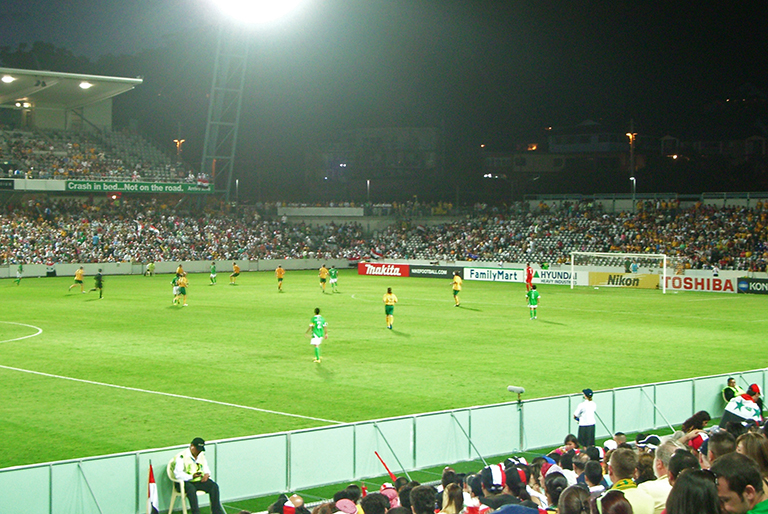 own image, taken during 2007